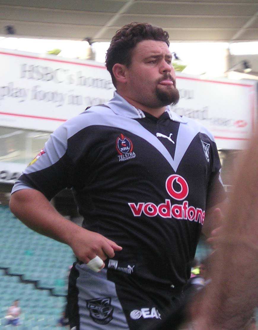 Warriors Prop Mark Tookey - Sydney Football Stadium 2005.